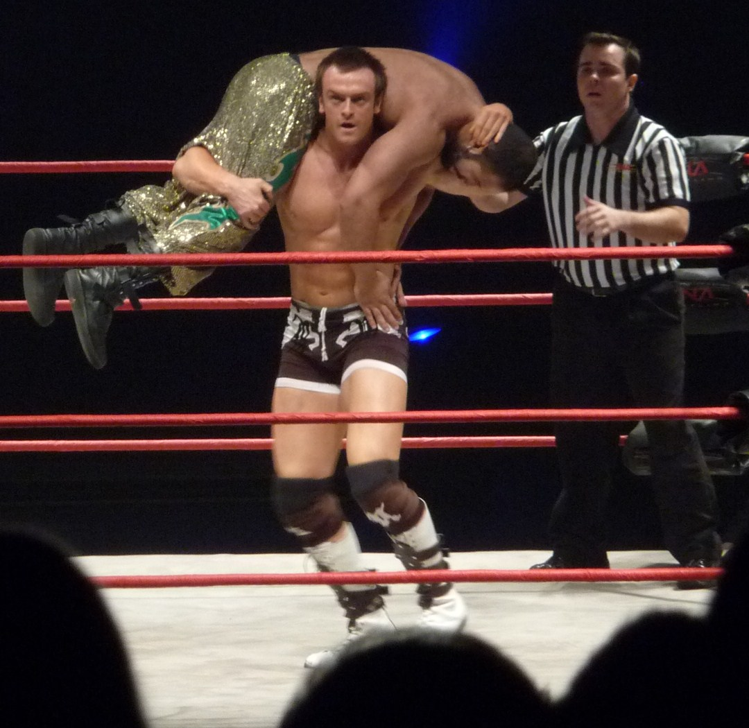 Aldis, as Brutus Magnus, prepares to perform the Tormentum on Sheik Abdul Bashir.